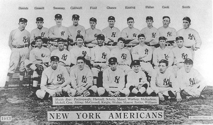 1913 New York Yankees Team Photo